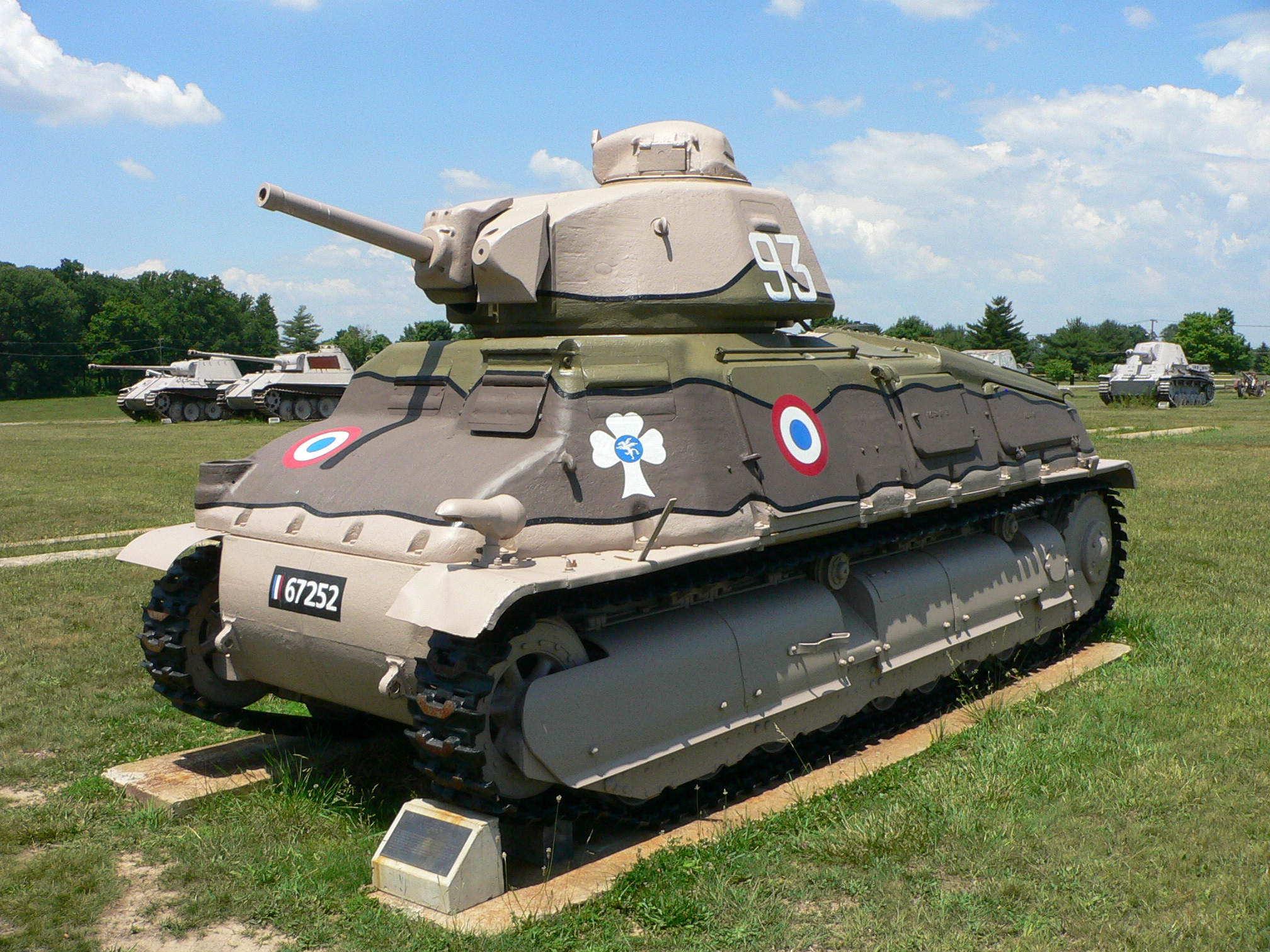 Picture taken by myself, Mark Pellegrini, at the United States Army Ordnance Museum (Aberdeen Proving Ground, MD) on June 12, 2007.